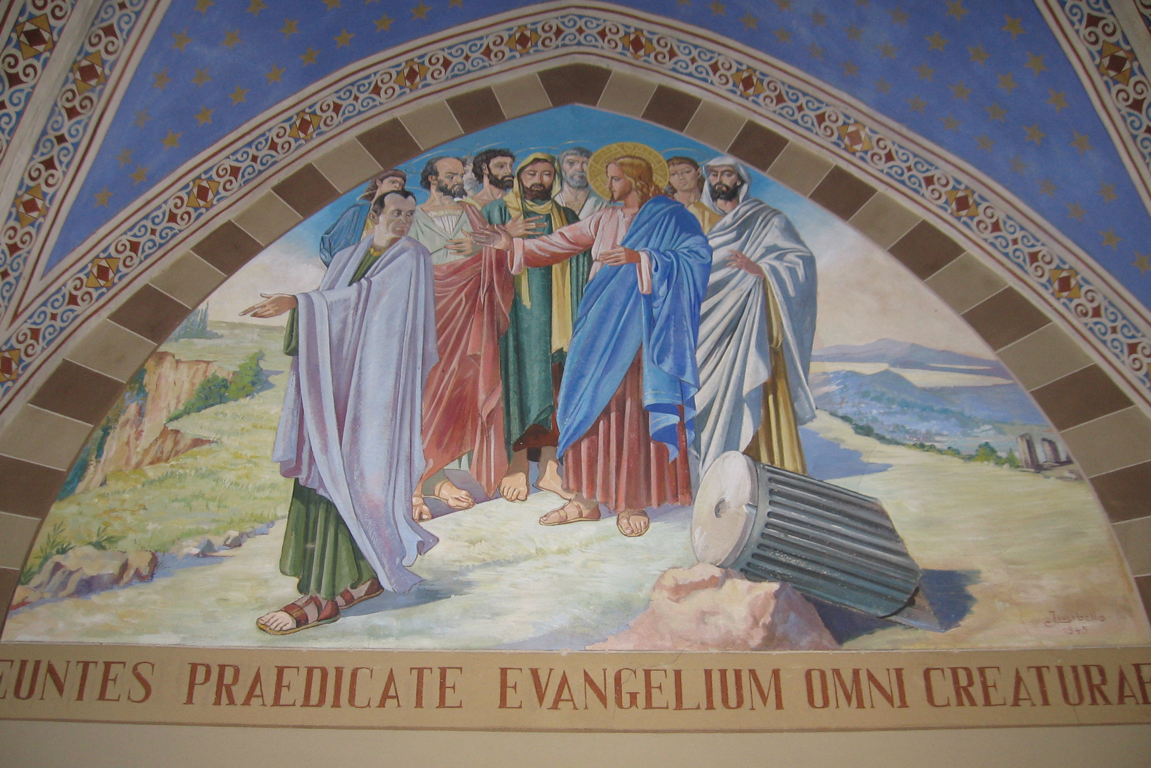 Fresco in Bishop's chapel located in Cortona depicting the mission of the apostles